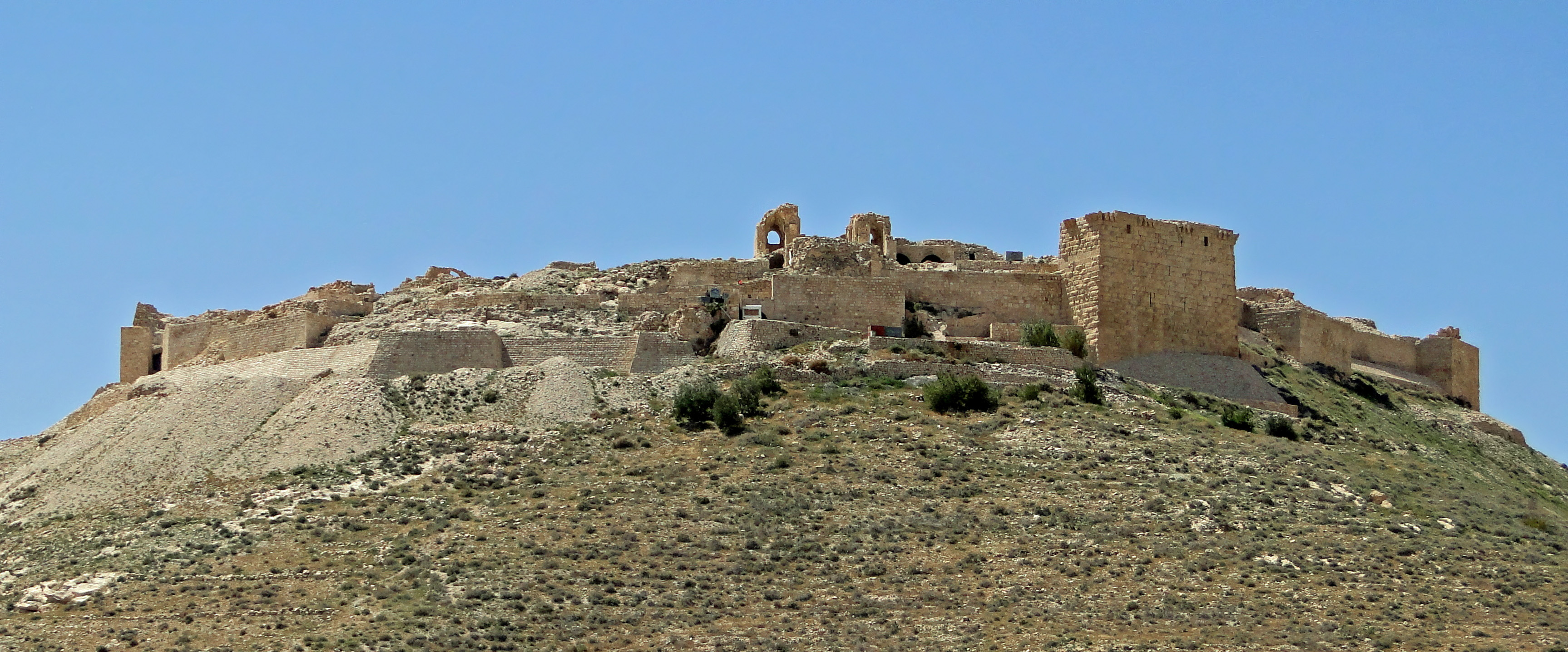 View of Montreal Castle, Shoubak, Jordan